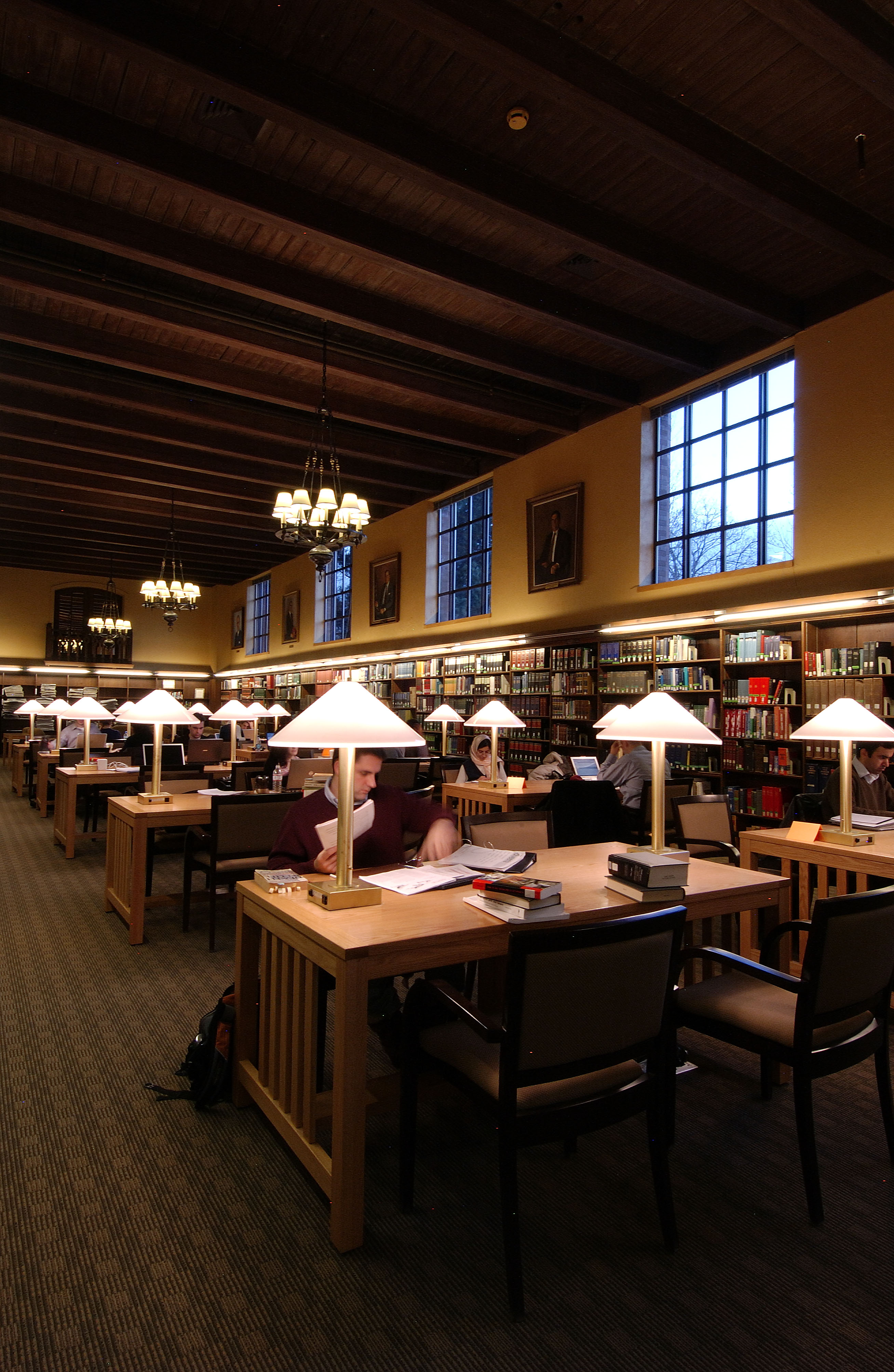 biblioteca Ginn de la Fletcher School Information